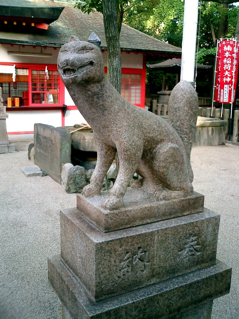 Agyō, the right one, of a pair of stone fox statues at Kusumoto-Inari, in Minatogawa-jinja, Kobe.